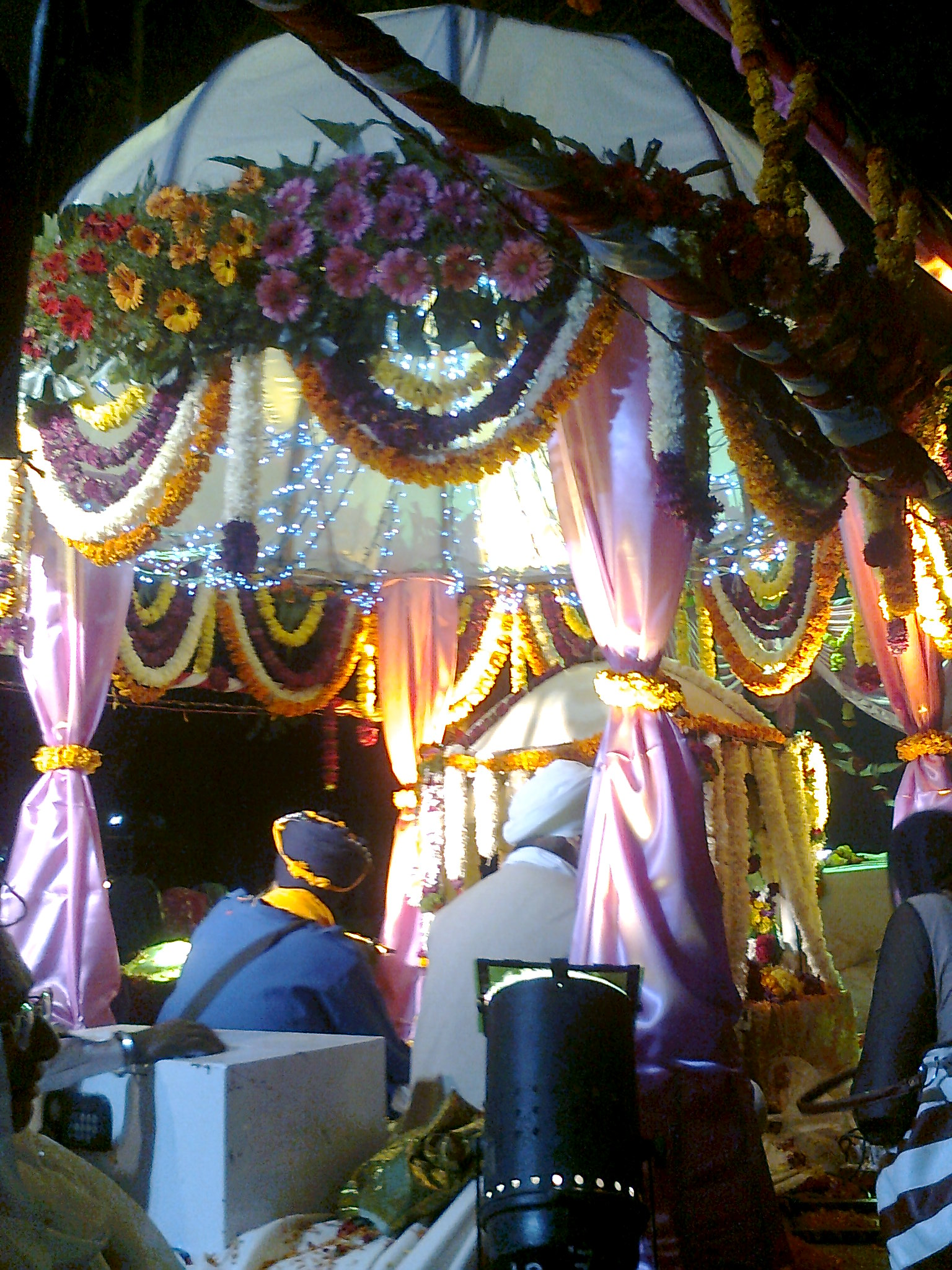 This is the picture of a Palki carried during an Indian Festival